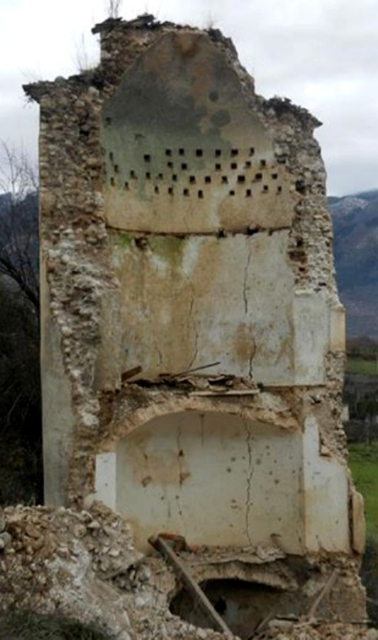 The "Palombara", a dovecote tower (XVth Century) in Alvito, Italy, after the collapse (2014-01-23)